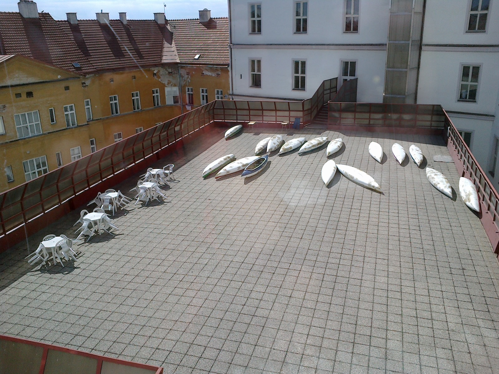 School in Znojmo